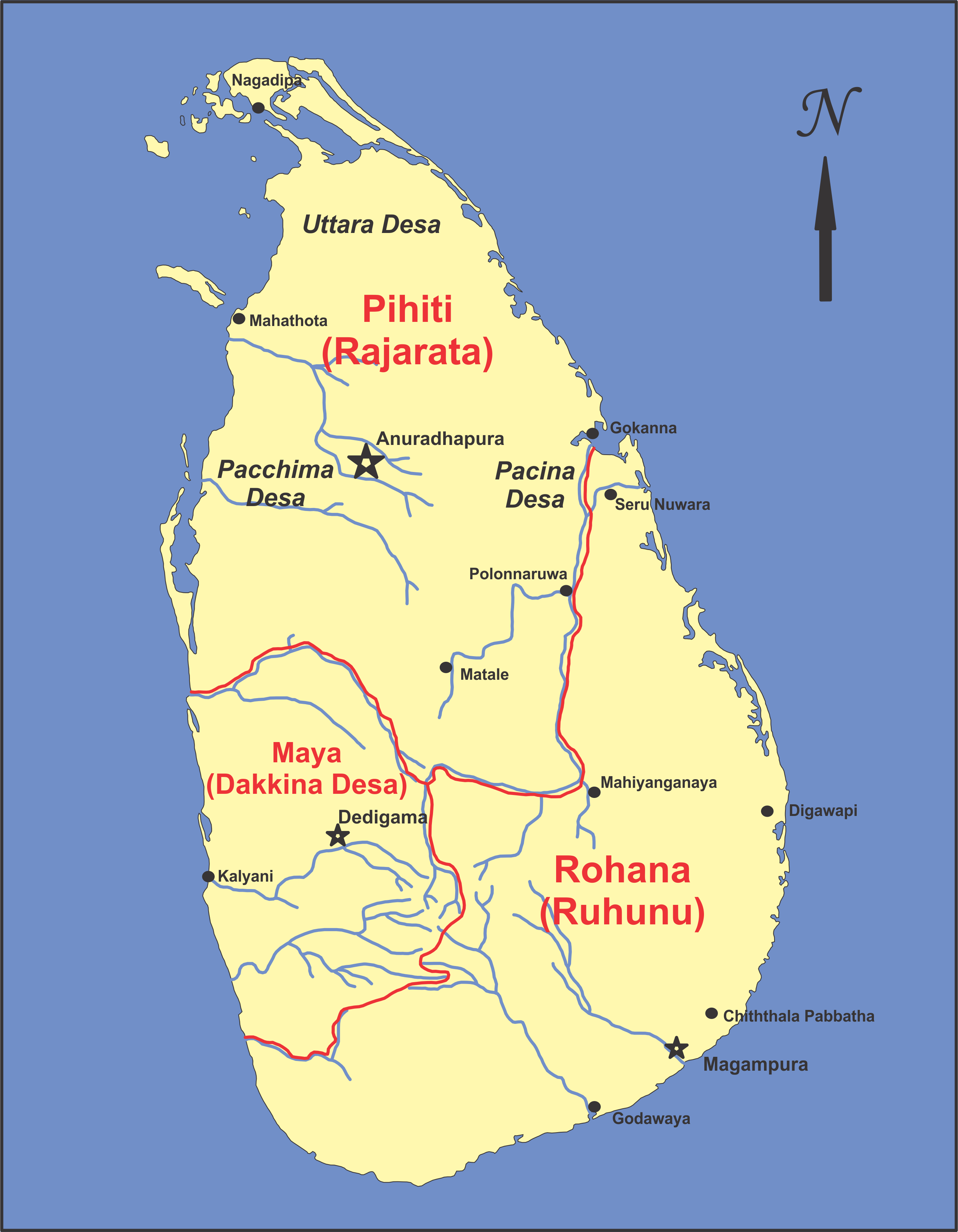 Administrative areas of the Kingdom of Anuradhapura. Rajarata was the personal domain of the King. It was further divided in to four districts (Desa): Dakkina, Pachhima, Uttara and Pacina Desa. District rulers were appointed bu the king and were the chief adminstrative, revenue and judicial officers in the area. It became customary to appoint the heir to the throne as ruler of the Dakkina Desa and as he was called Mahaya or Mapa, Dakkina Desa came to be called the Mayarata. Source: 'Ceylon and Indian History', LH Horace Perera & M Ratnasabapathy. (1954), p191-192.